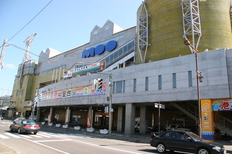 Kushiro Fisherman's Wharf MOO (front) in Kushiro, Hokkaido, Japan